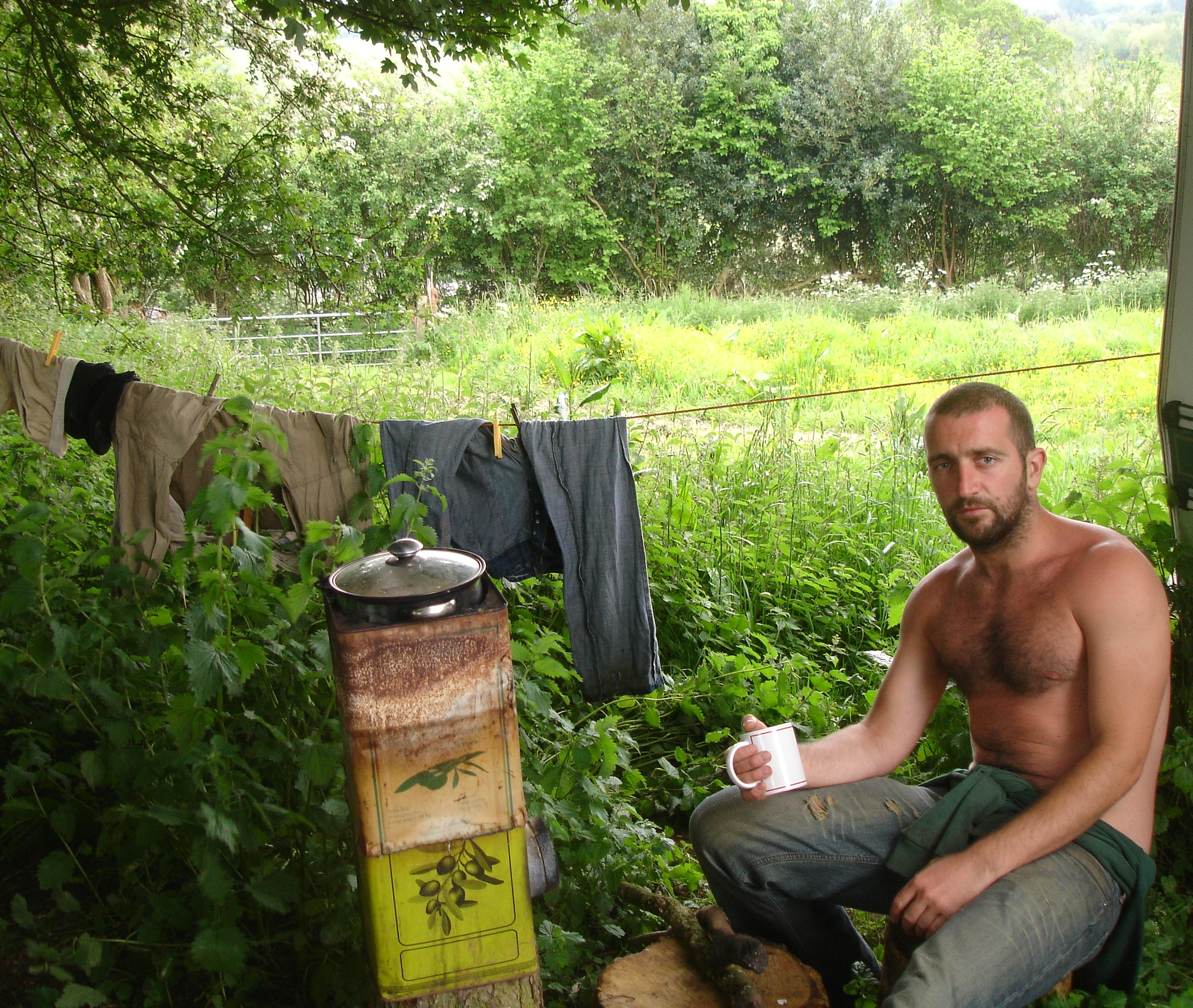 Mark Boyle (Moneyless Man) with a cup of tea, outside his caravan.